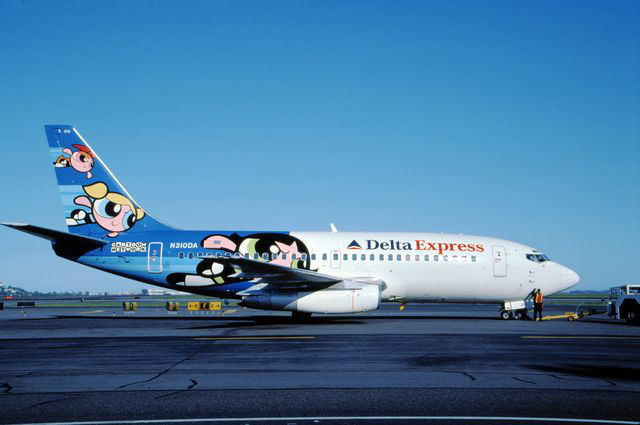 Boeing 737-232 of Delta Express airlines with special aircraft livery depicting the Powerpuff Girls.